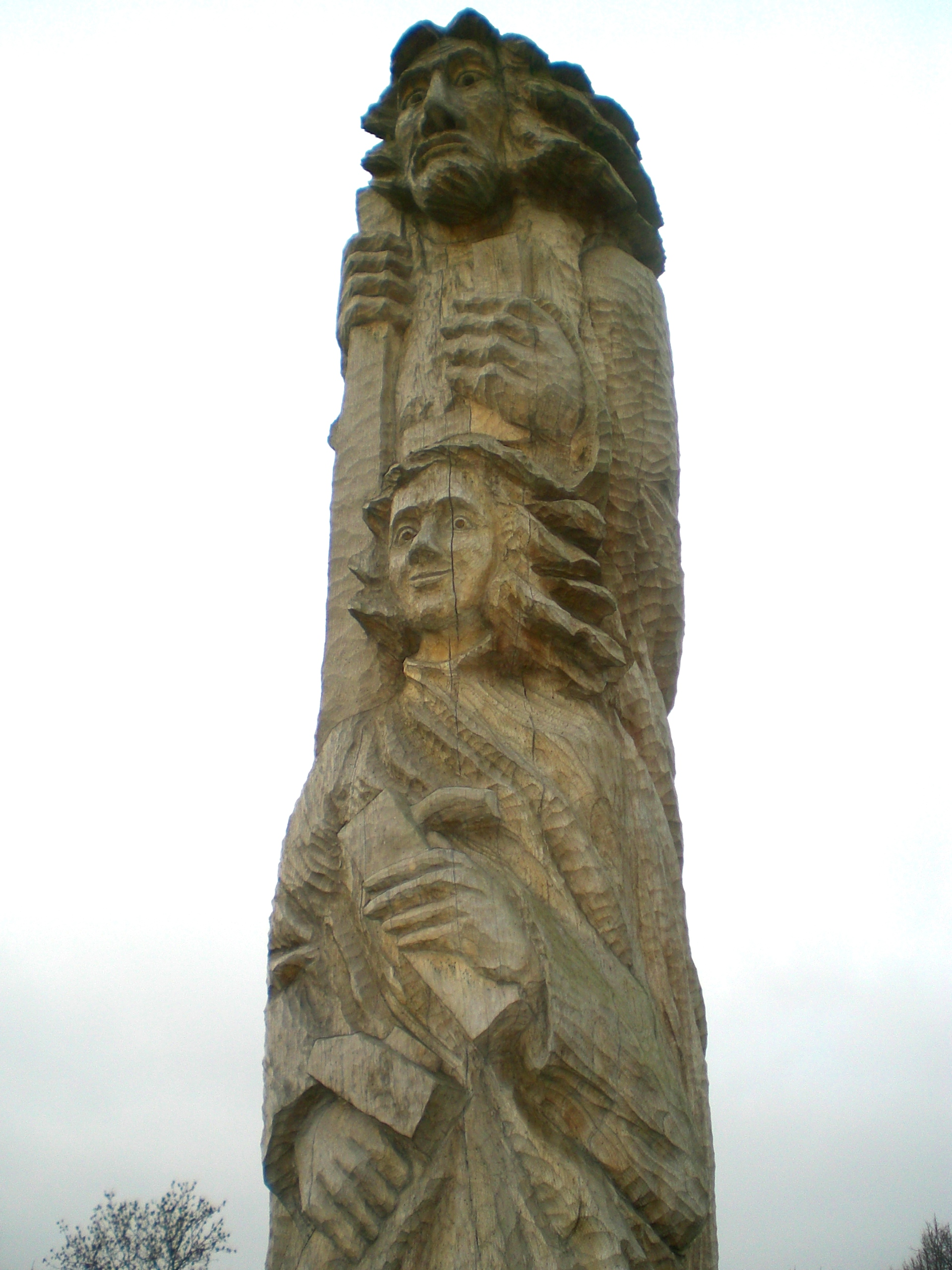 Wooden sculpture of the Joseph and his son and apprentice Jesus at the baroque wooden church of Carmelites (St. Joseph's) in Kėdainiai, Lithuania.